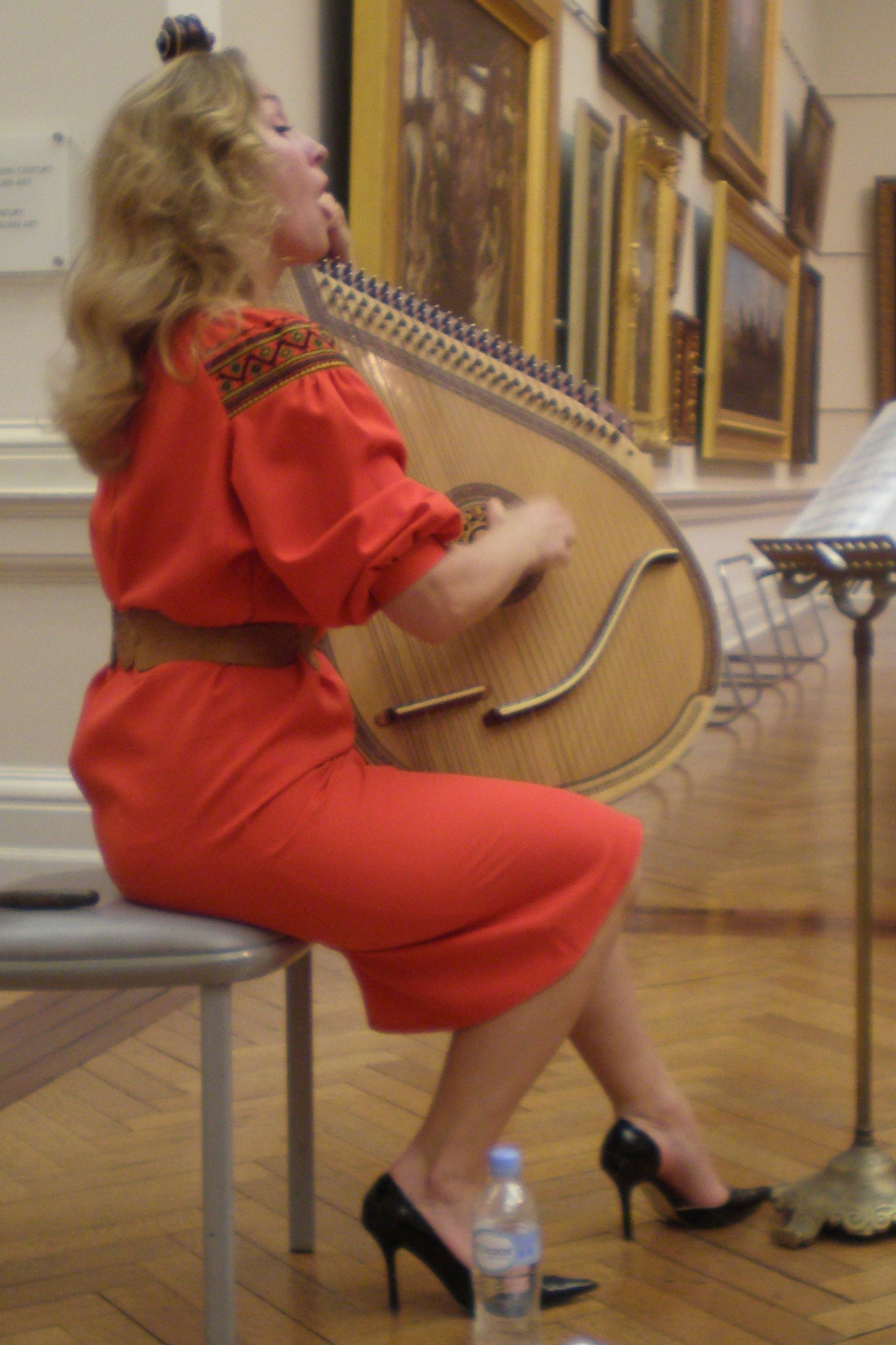 Larissa Burak playing the bandura at the Australian Institue of Music concert at the NSW Art Gallery on 31 October 2010